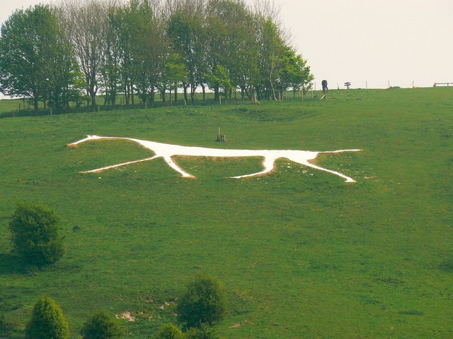 Broad Hinton White Horse, Hackpen Hill Also known as Hackpen White Horse it isn't that old: 19th century. Most sources place its date of creation to 1838. E.g.